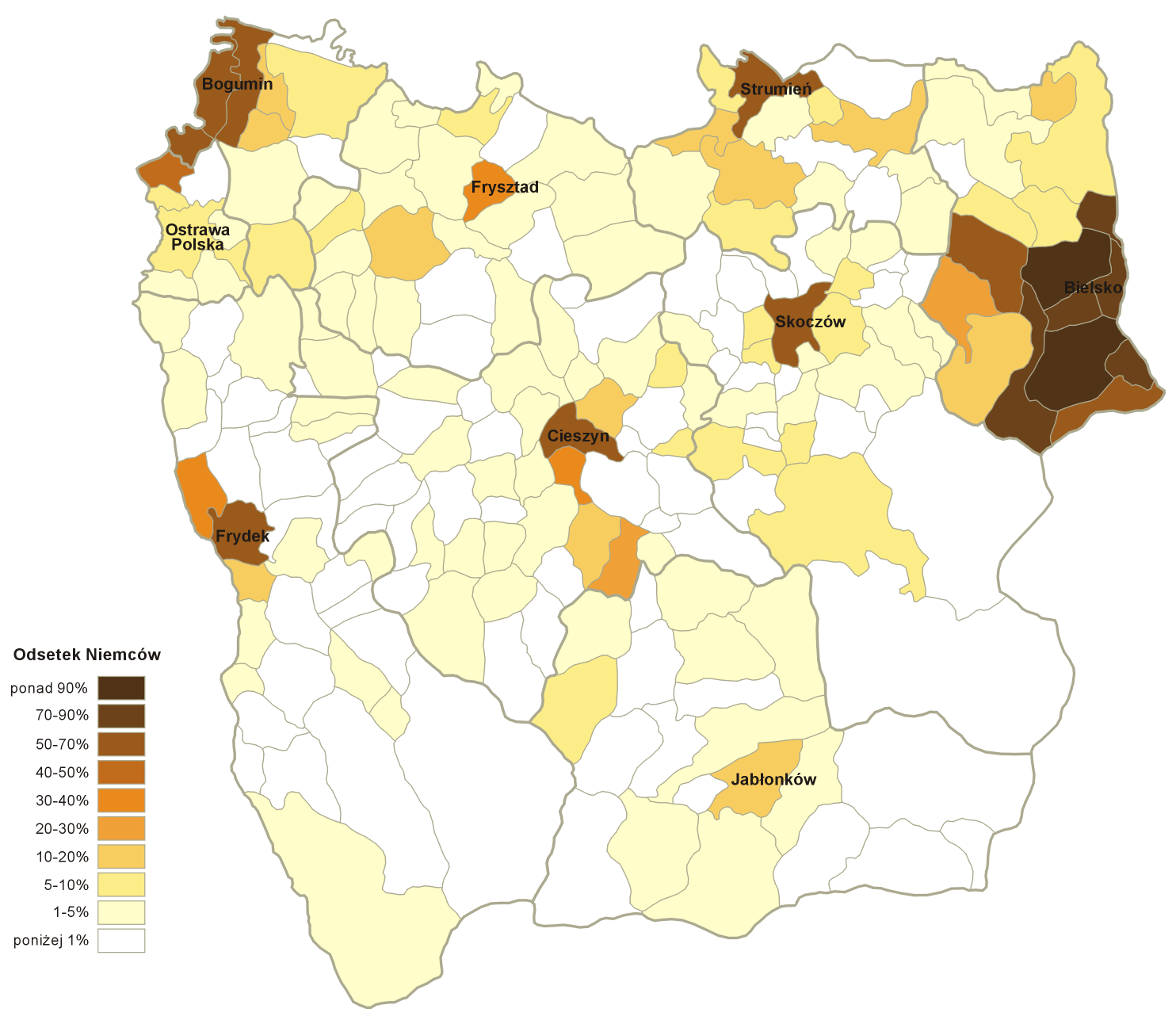 Percentage of German-speaking population in communes of the Duchy of Teschen according to the Austrian census 1910